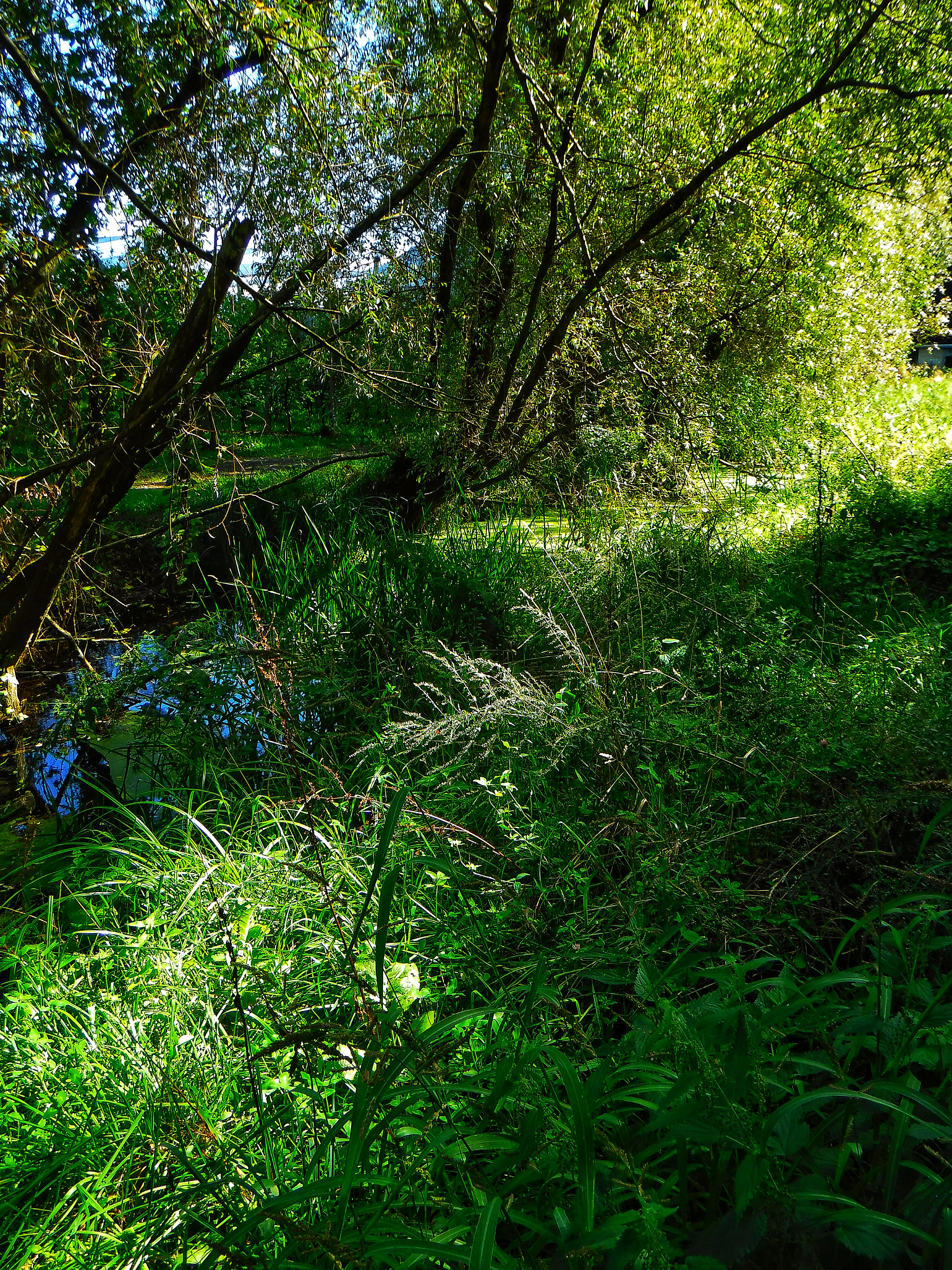 Locations: Trentino - Alto Adige - Südtitol. Rio dei Gamberi in Lana di Sotto biotope. Biotop Krebsbach. Valle di Lana di Sotto, province of Bolzano. Italy. Area of ​​conservation of habitats / species, nature, landscape and development of the territory. Photo by Giovanni Ussi #giovanniussi